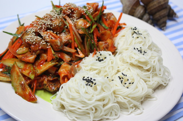 golbaengi-muchim (spicy sea snails salad)